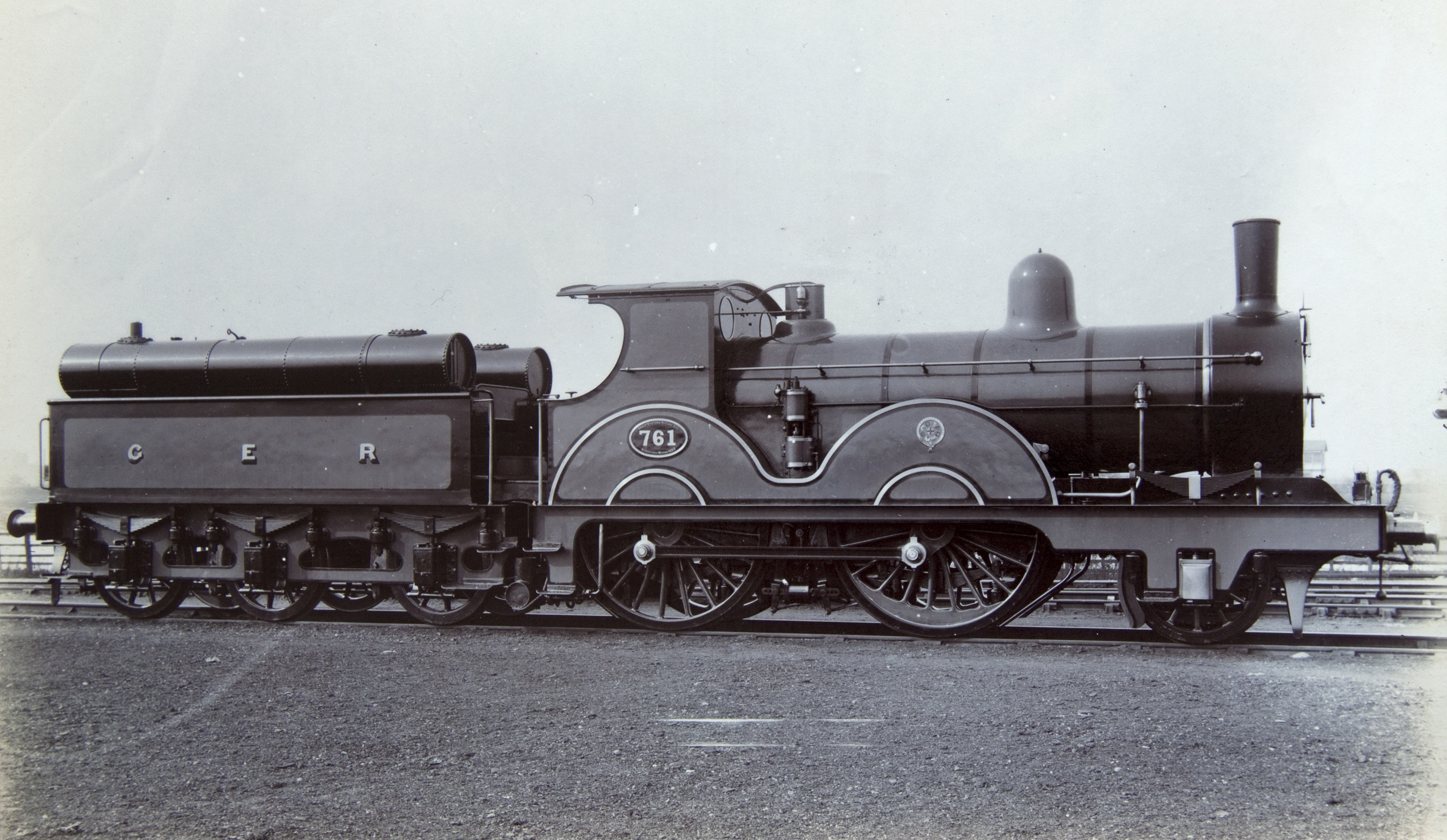 The T19 class 2-4-0 was James Holden's second design for the GER, and formed the basis for all of the larger locomotives introduced for the next fourteen years. In 1889, No. 759 was fitted with oil burning gear and, two years later, No. 760 was similarly-equipped and named Petrolea. Nos. 712 and 761 followed in 1893. Many of the the 2-4-0 T19 were subsequently converted to 4-4-0 T19Rs by 1908 (60), with all the remaining 2-4-0s scrapped by 1920. This photo was taken from an old original photo we came across while helping to clear the house of a deceased friend. I have uploaded it to Flickr in the hope that it might be interesting to steam enthusiasts.